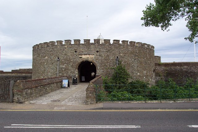 Deal Castle